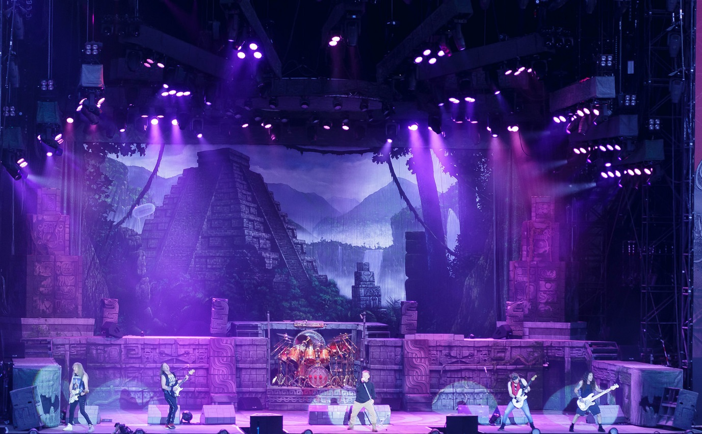 Iron Maiden performing at Paleo, Nyon 2016